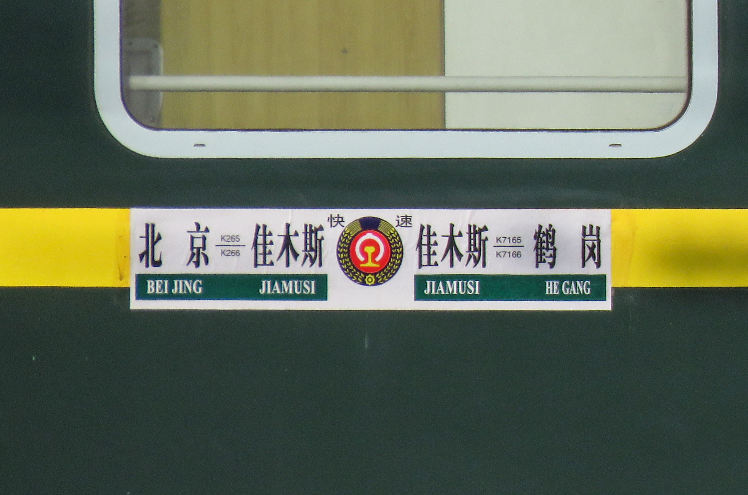 K265 Beijing to Jiamusi, and K7165 Jiamusi to Hegang.